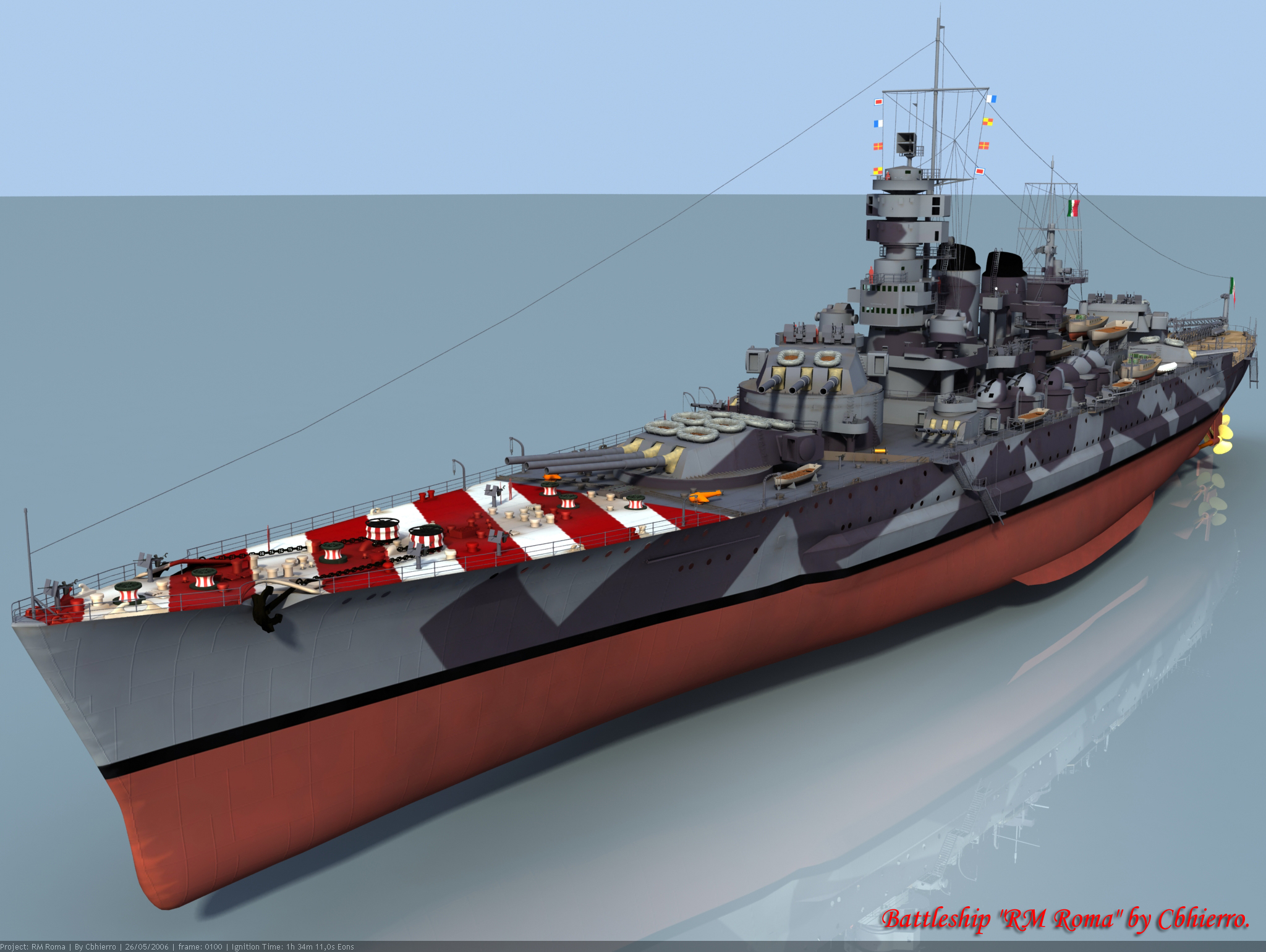 a 3D rendering of the different views of the Regia Marina Roma battleship